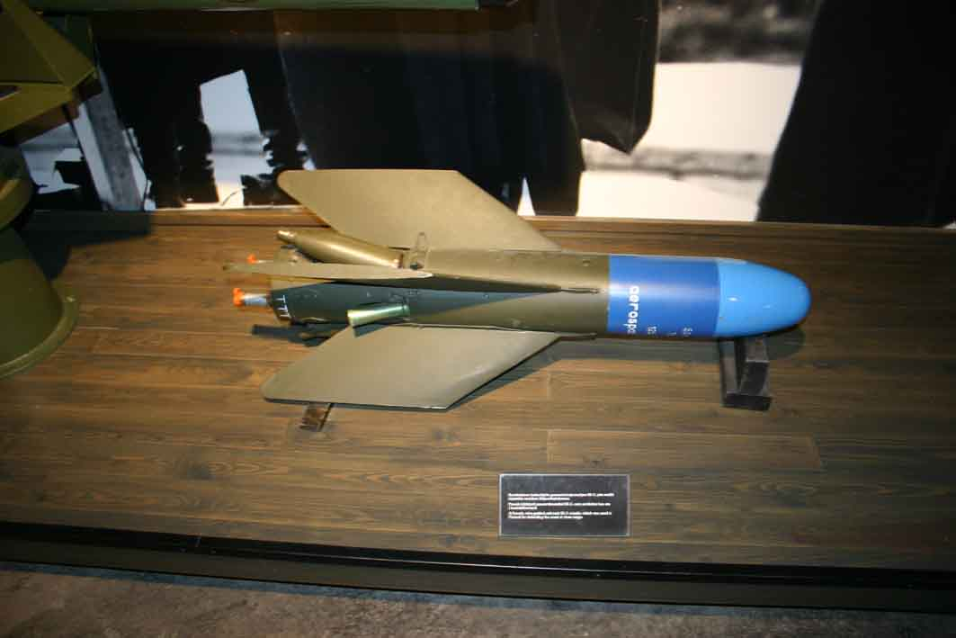 A coast defence missile at museum